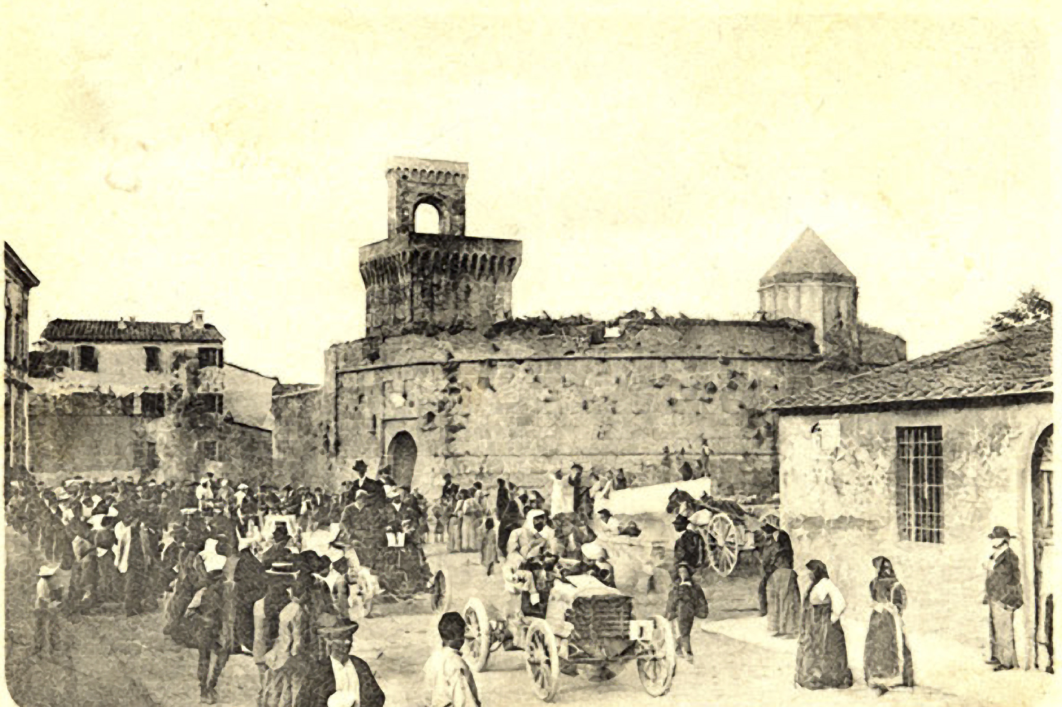 The start of the 82 km "Race of Resistance" from Piombino to Livorno on the Tuscany coast in Italy on 24 August 1901. Car #1 is Felice Nazzaro in Fiat 12 HP who won the "big car class" (above 1,000 kg) and was the fastest overall, at an average speed of 44,77 km/h [1]